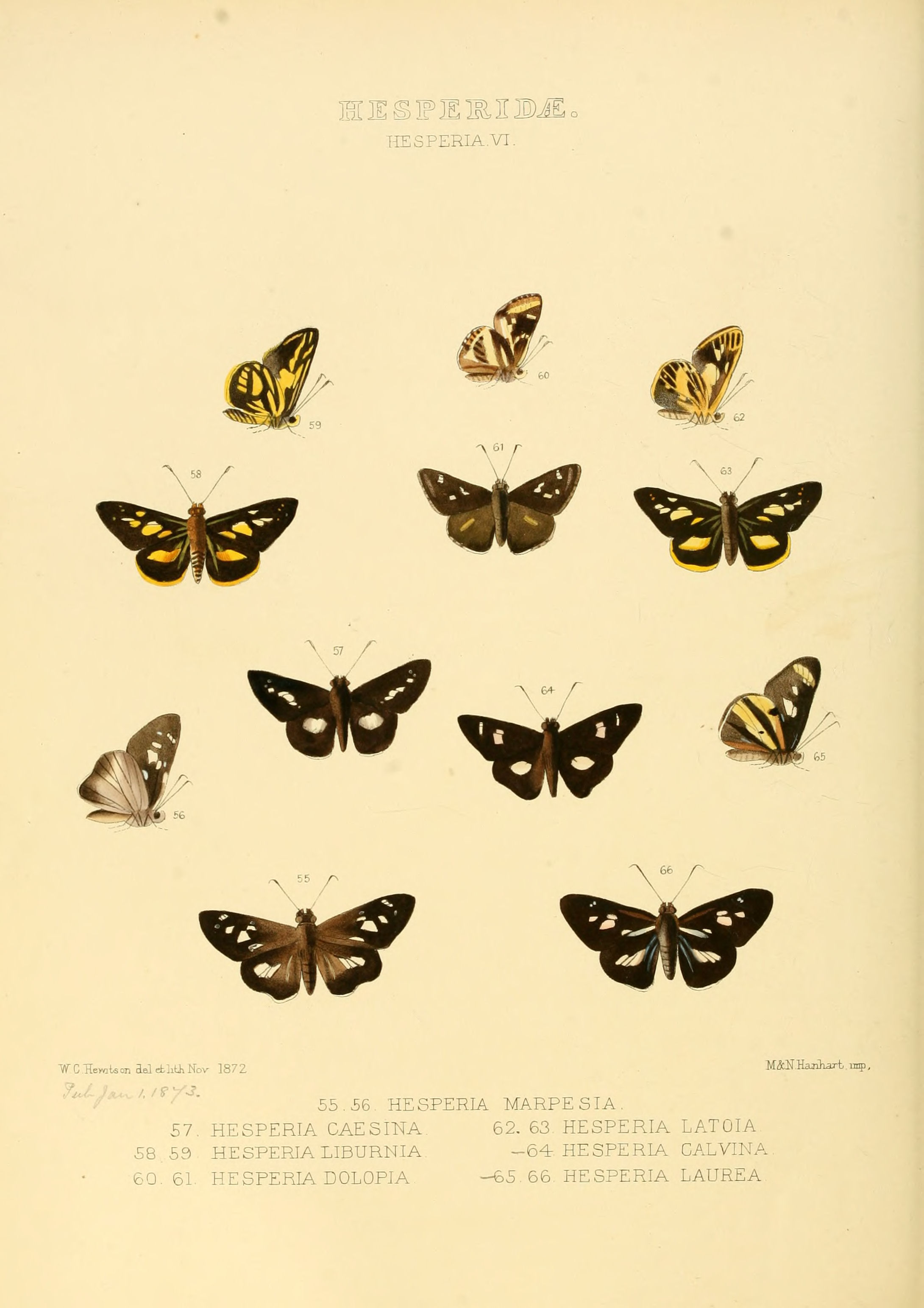 Plate: Hesperia VI Hesperia marpesia. Figs. 55, 50. Accepted as Carystus phorcus (Cramer, 1777). Hesperia caesina (on Plate) / cæsina (in Text). Fig. 57. Accepted as Sabera caesina (Hewitson, 1866). Hesperia liburnia. Figs. 58, 59. Accepted as Pyroneura liburnia (Hewitson, 1868). Hesperia dolopia. Figs. 60, 61. Accepted as Sebastonyma dolopia (Hewitson, 1868). Hesperia latoia. Figs. 62, 63. Accepted as Pyroneura latoia (Hewitson, 1868). Hesperia calvina. Fig. 64. Accepted as Cobalus calvina (Hewitson, 1866). Hesperia laurea. Figs. 65, 66. Accepted as Vettius phyllus (Cramer, 1777).